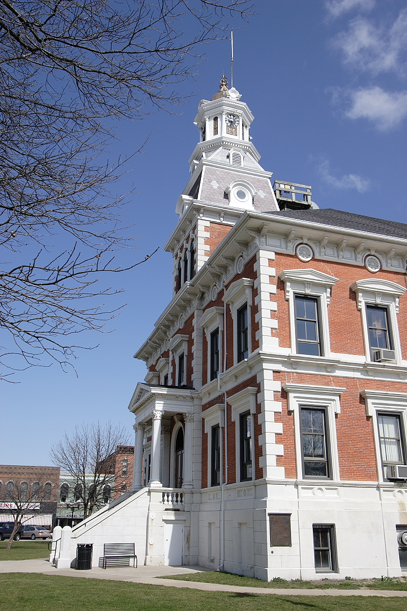 McDonough County Courthouse, Macomb, Illinois, 2006. Designed by architect Elijah E. Myers